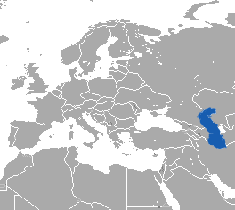 Caspian Seal (Pusa caspica) range